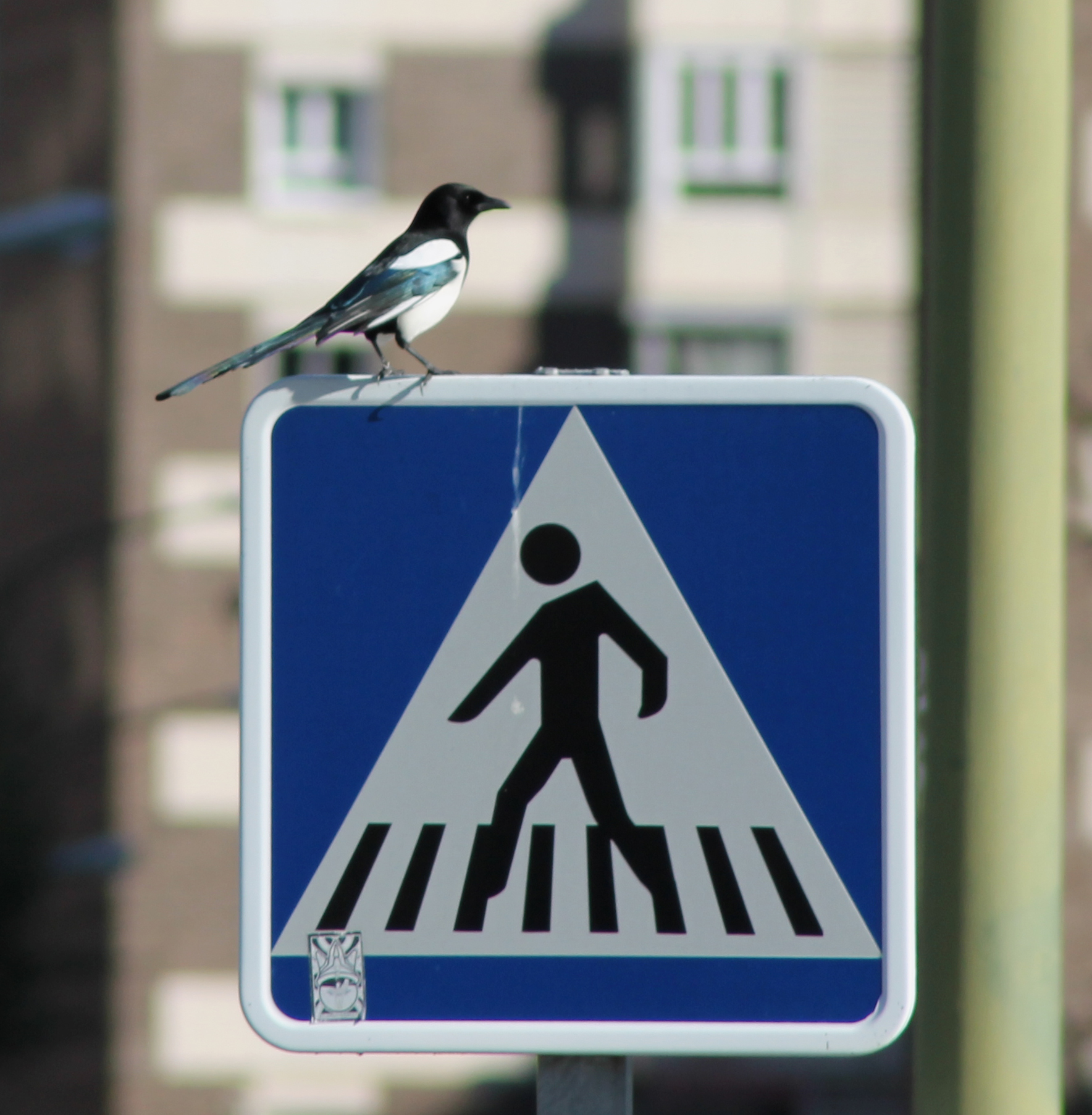 A European magpie (Pica pica) on a pedestrian-crossing sign in Madrid (Spain).